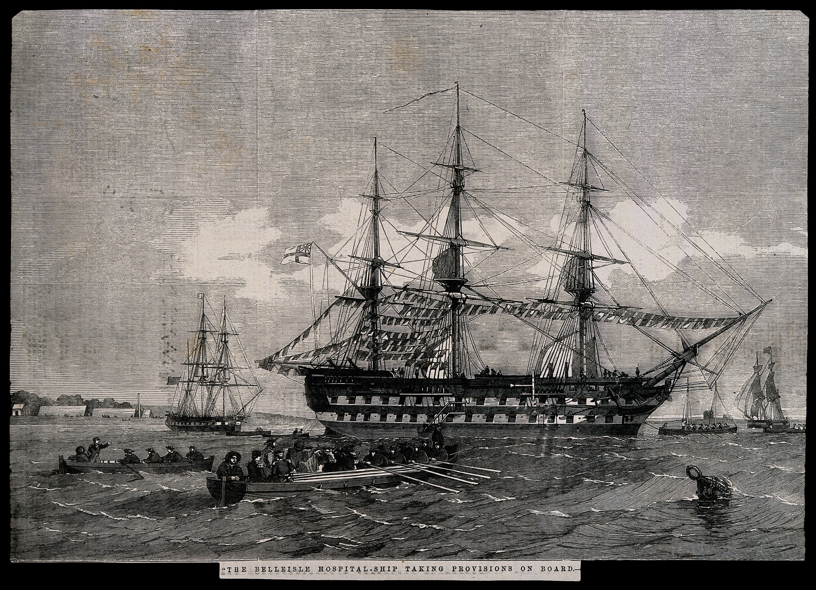 Crimean War: the Belleisle Hospital Ship taking provisions on board. Wood engraving. Iconographic Collections